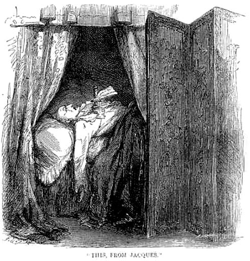 A Tale of Two Cities, illustration by John McLenan, The assassinated marquis on his deathbed. "This, from Jacques" John McLenan 1859 Dickens's A Tale of Two Cities, Book II, Chapter 9 "The Gorgon's Head" Harper's Weekly (9 July 1859); this passage from the tenth instalment previously appeared in the UK in All the Year Round on 2 July 1859